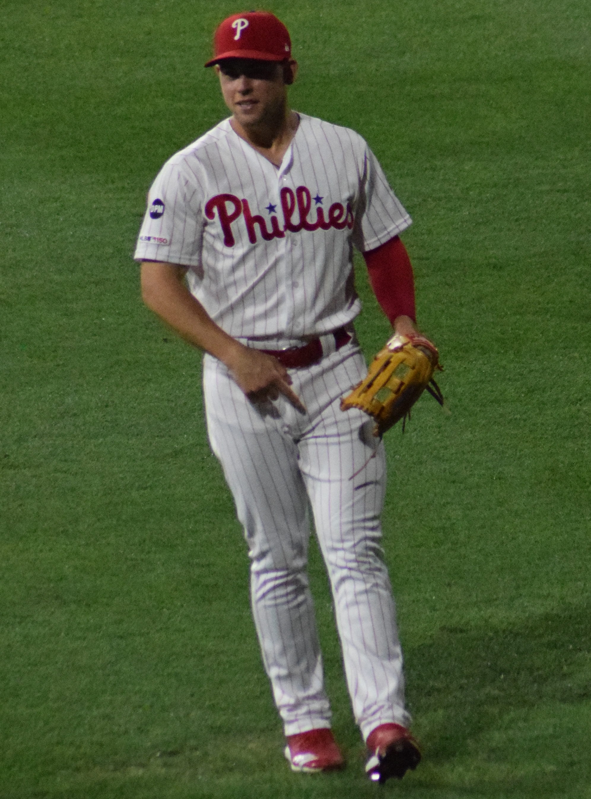 Scott Kingery